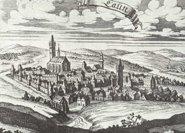 Louny around the year 1500 (drawing by Gabriel Bodenehr)